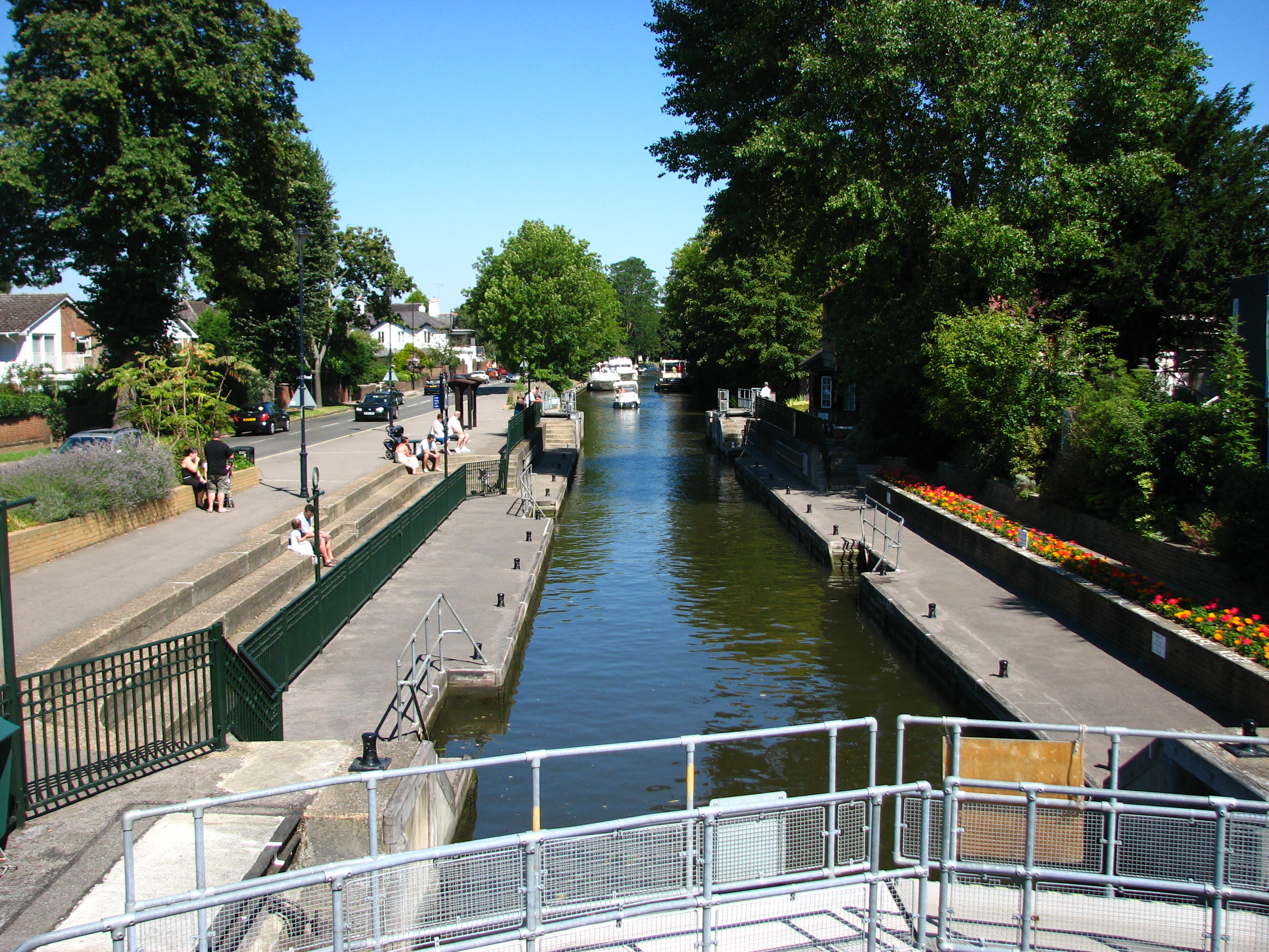 Boutlter's Lock on the River Thames at Maidenhead